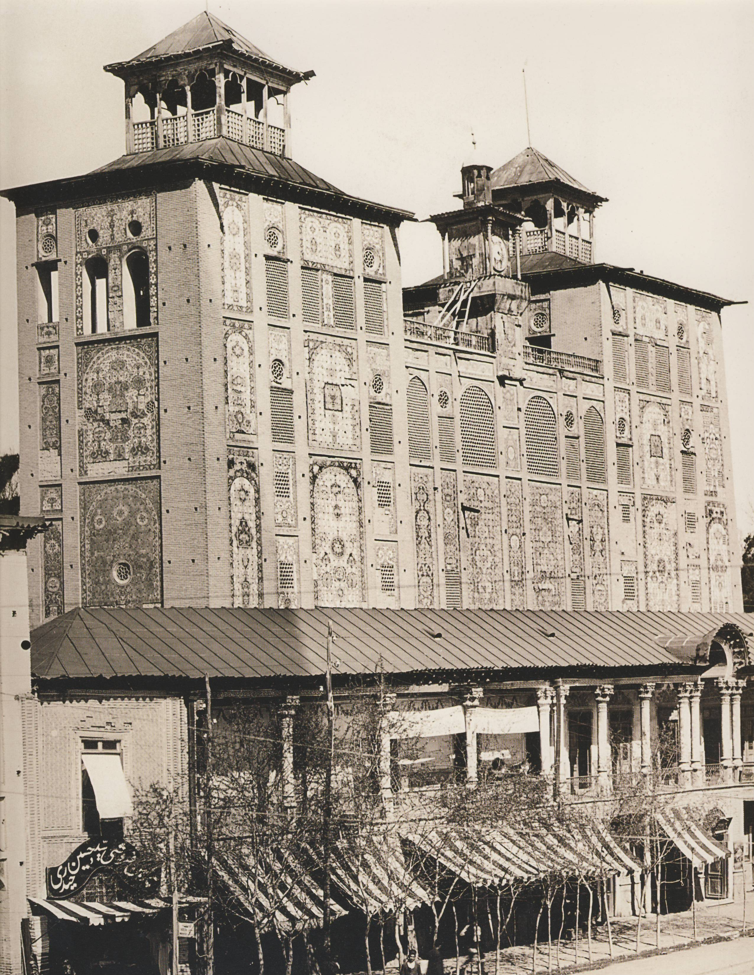 Shamsol-emareh, Iranian palace located in Tehran.